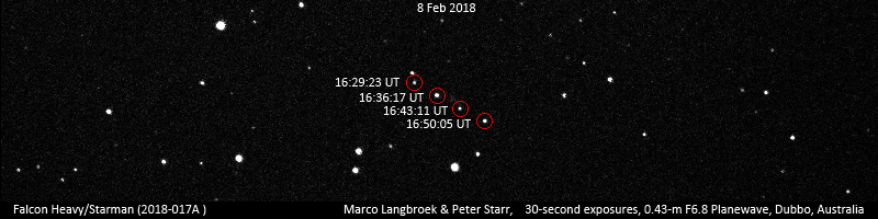 These images, taken with the 0.43-m telescope of Dubbo Observatory in Australia, show 2018-017A, the Falcon Heavy upper stage with Tesla Roadster and Starman dummy, moving through space on 8 Feb 2018, 16:29-16:50 GMT. When these images were taken, it was at a distance of 550 000 km (1.4 Lunar distances).